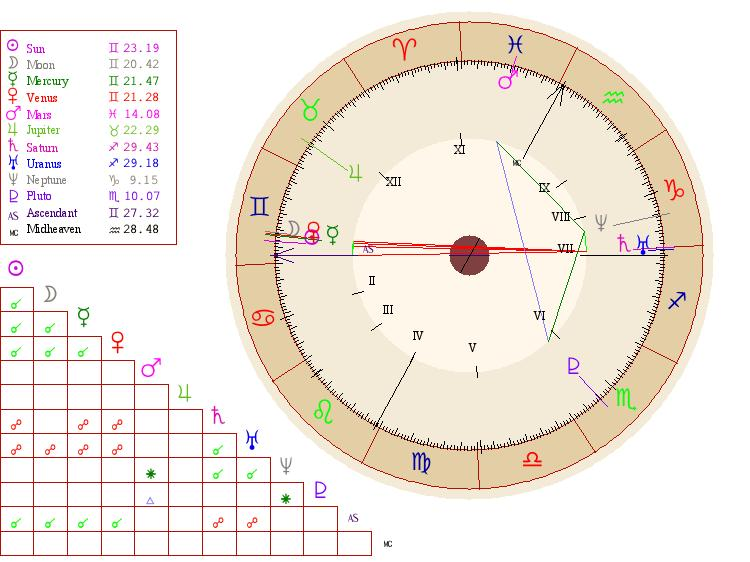 Example of birth chart. Own work.